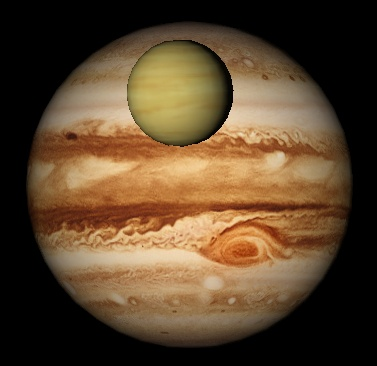 Illustration created using Starry Night Pro software. On 1818-Jan-03, Jupiter was 6.2AU and Venus 1.6AU from the Earth. Both were on the opposite side of the Sun in the constellation Sagittarius and 16 degrees from the Sun in the morning sky.